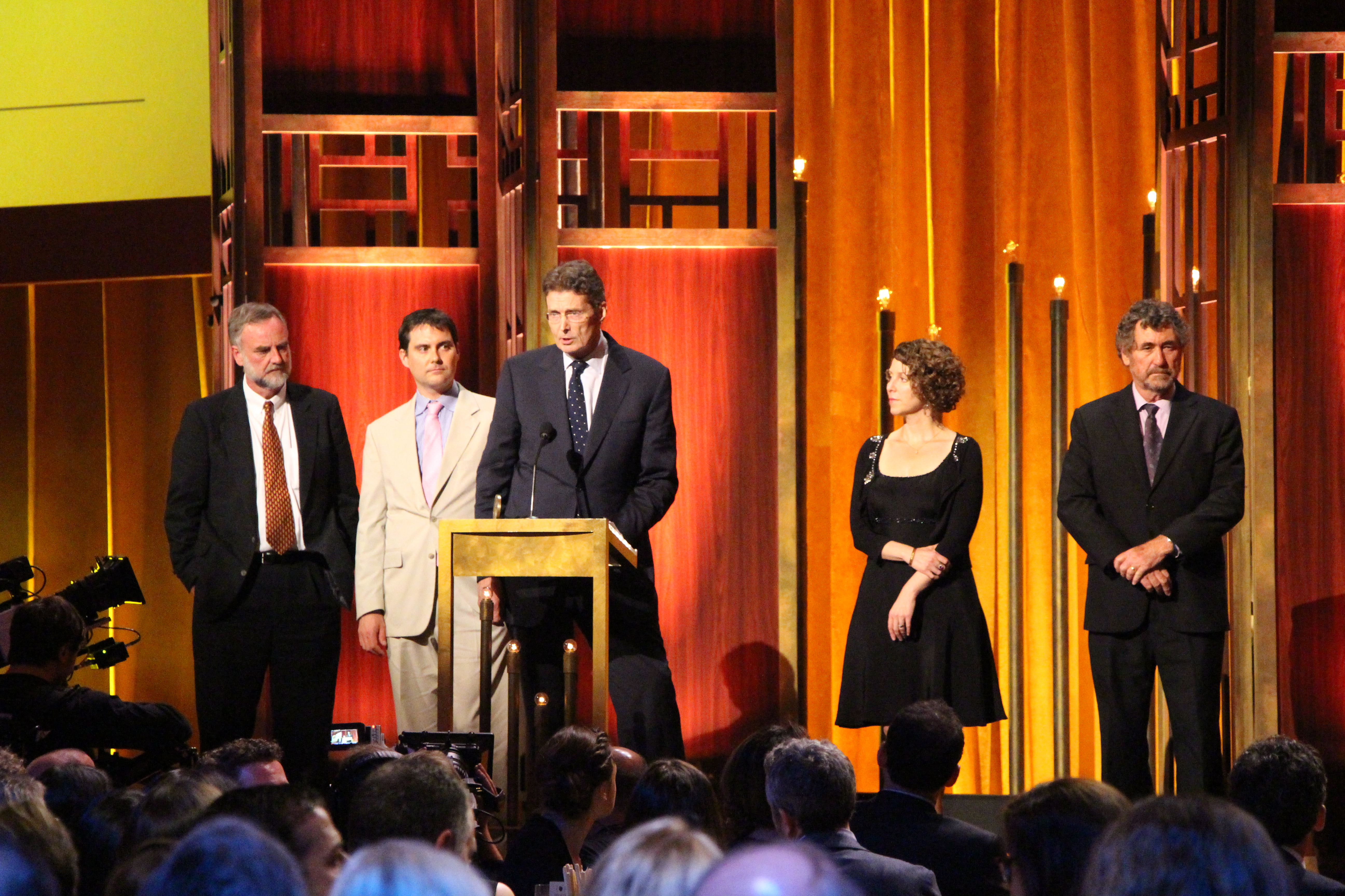 Writer and Producer Martin Smith accepts the Peabody for United States of Secrets accompanied by (from left to right) Jim Gilmore, Mike Wiser, Raney Aronson-Rath and David Fanning.